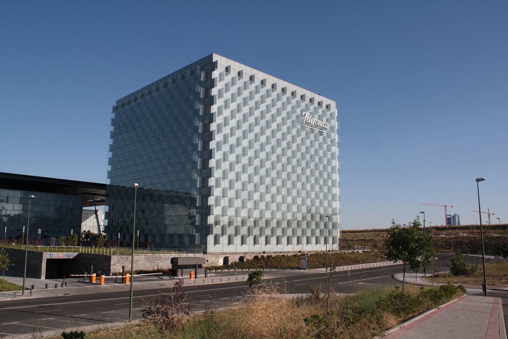 District C, the head office of Telefónica - Madrid, Spain